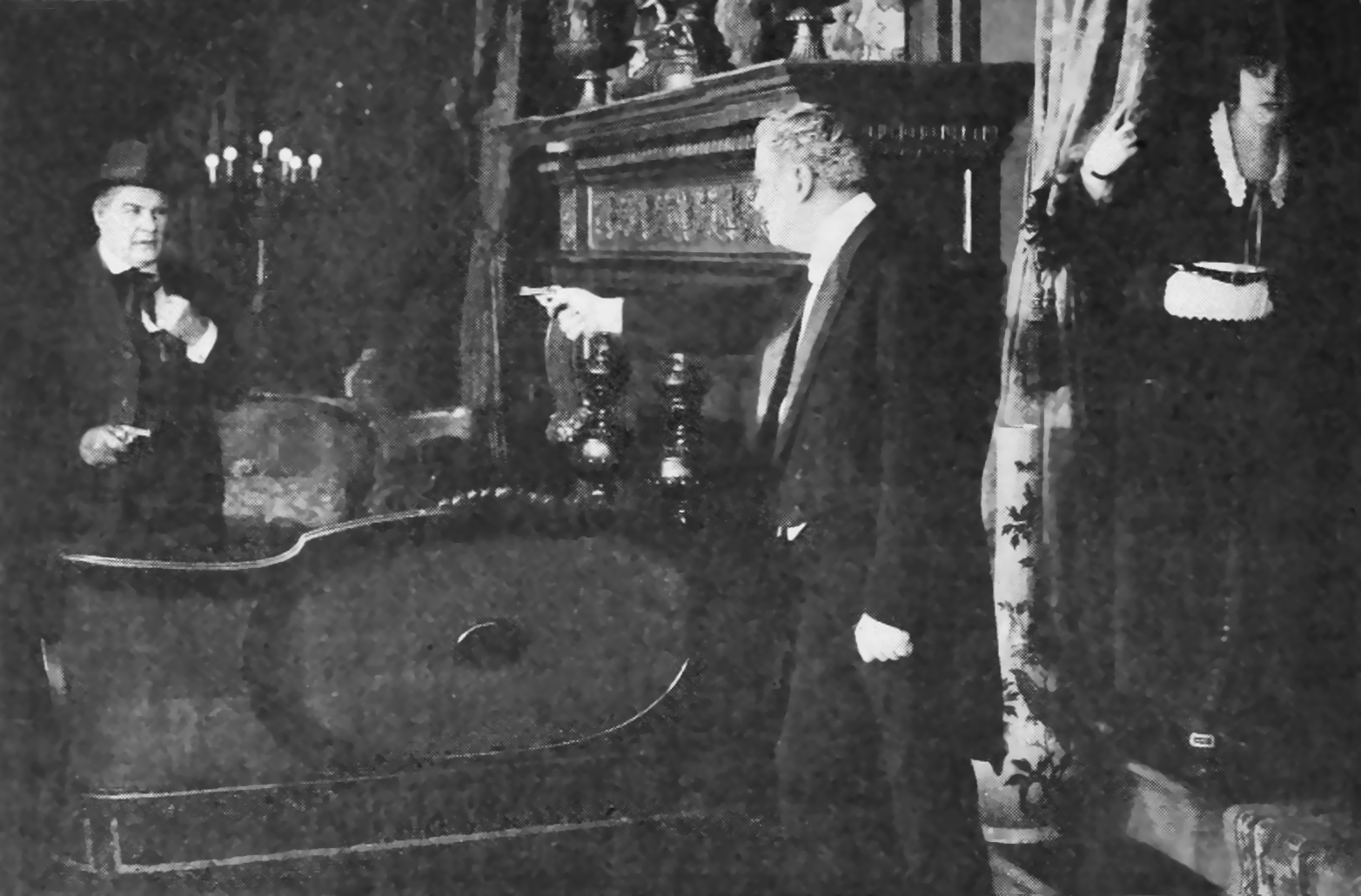 Still from the American film serial The Fatal Fortune (1919) with an unidentified actor, William Black, and Helen Holmes, on page 46 of the August 16, 1919 Exhibitors Herald.